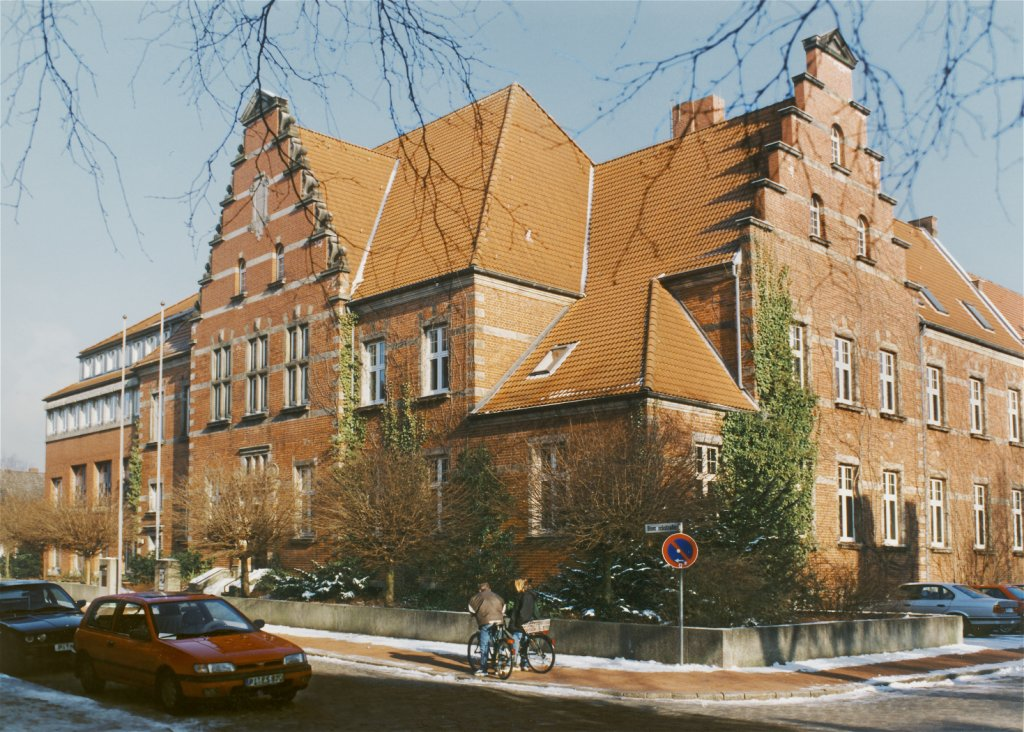 Elmshorn (Germany),county court , photo 1999